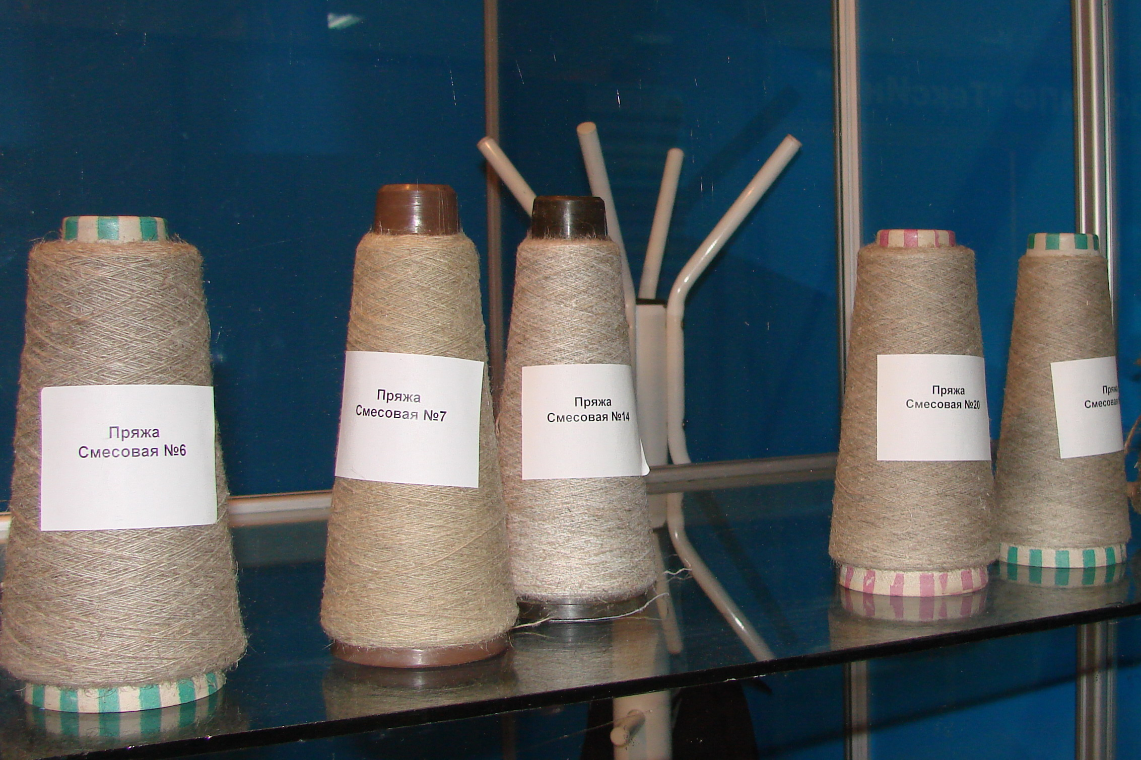 Yarn